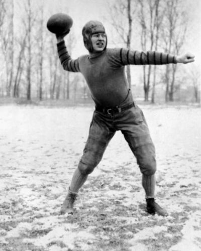 American football player and coach Curly Lambeau, with the ball.